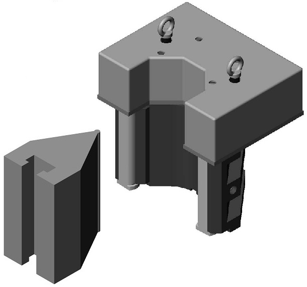 This tool is used to make standart bends. It's equipped with an electronic angle measurement.